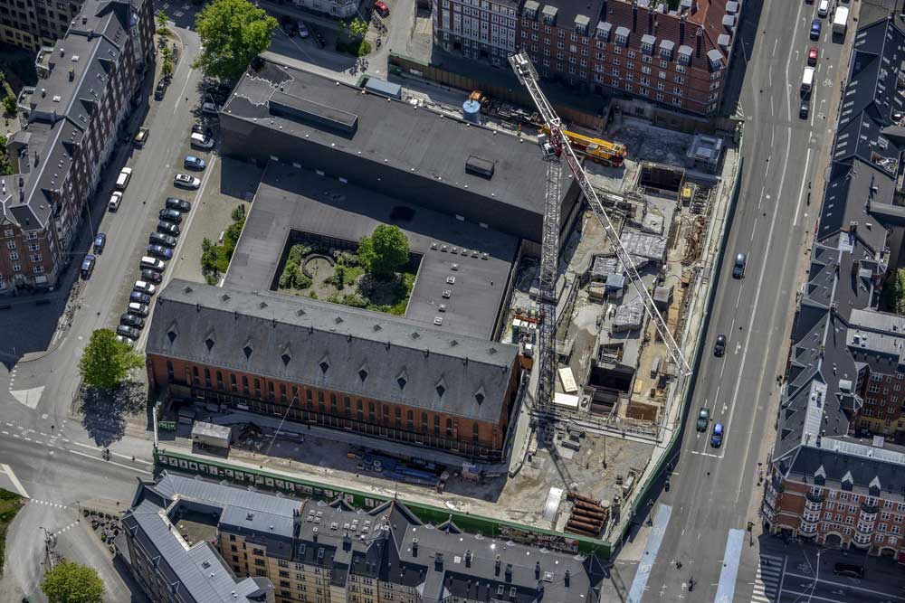 Air photo of the City Circle Line being built, part of the Copenhagen Metro. I got the following permission to use these images from kjeld madsen on 2014-10-07: Dragør Luftfoto ApS frigiver hermed billederne i galleriet under licensen Creative Commons Attribution ShareAlike 3.0 license.